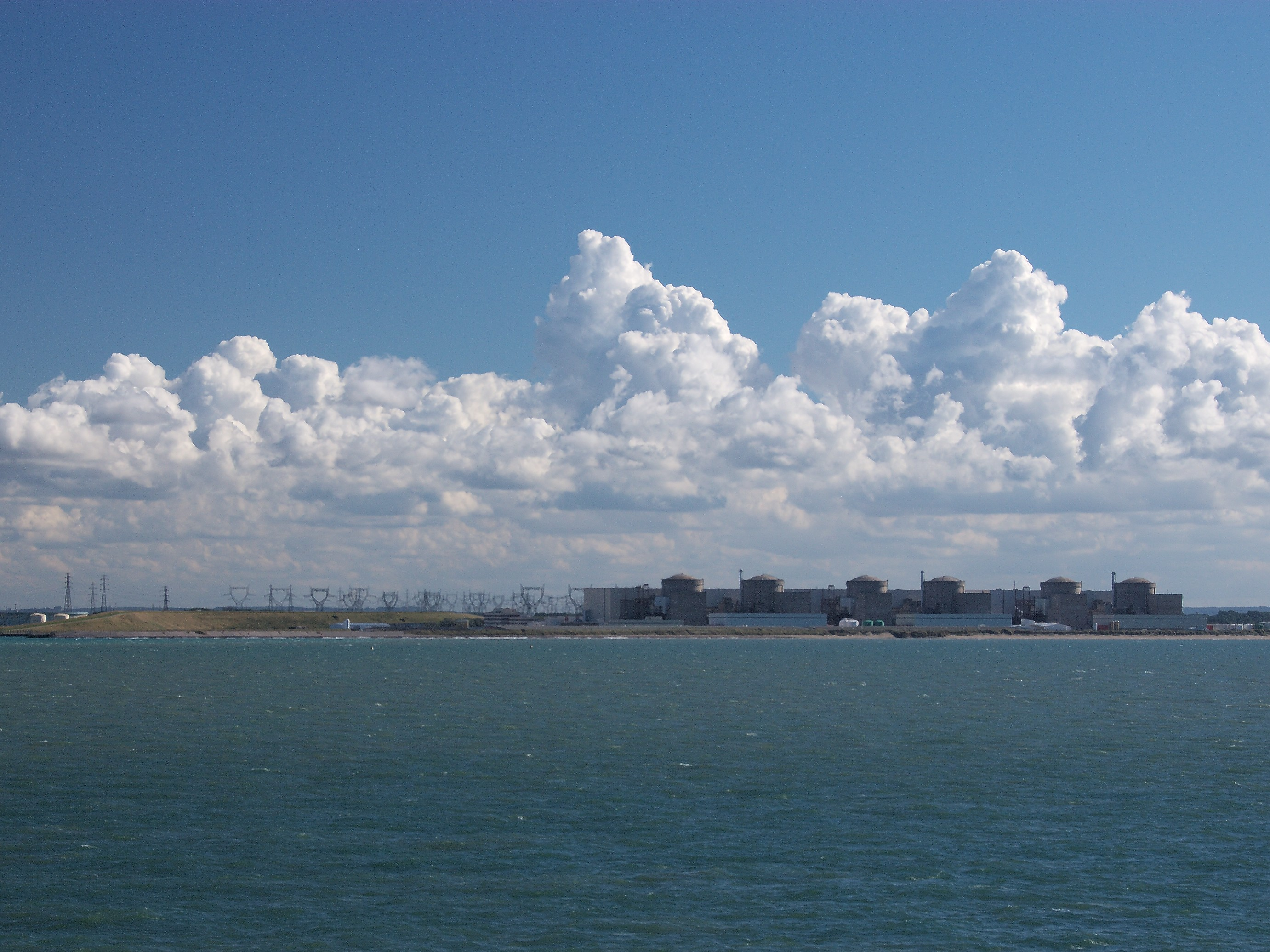 Powerlines and 6 blocks of the Graveline nuclear power plant on the French coast between Calais and Dunkirk.